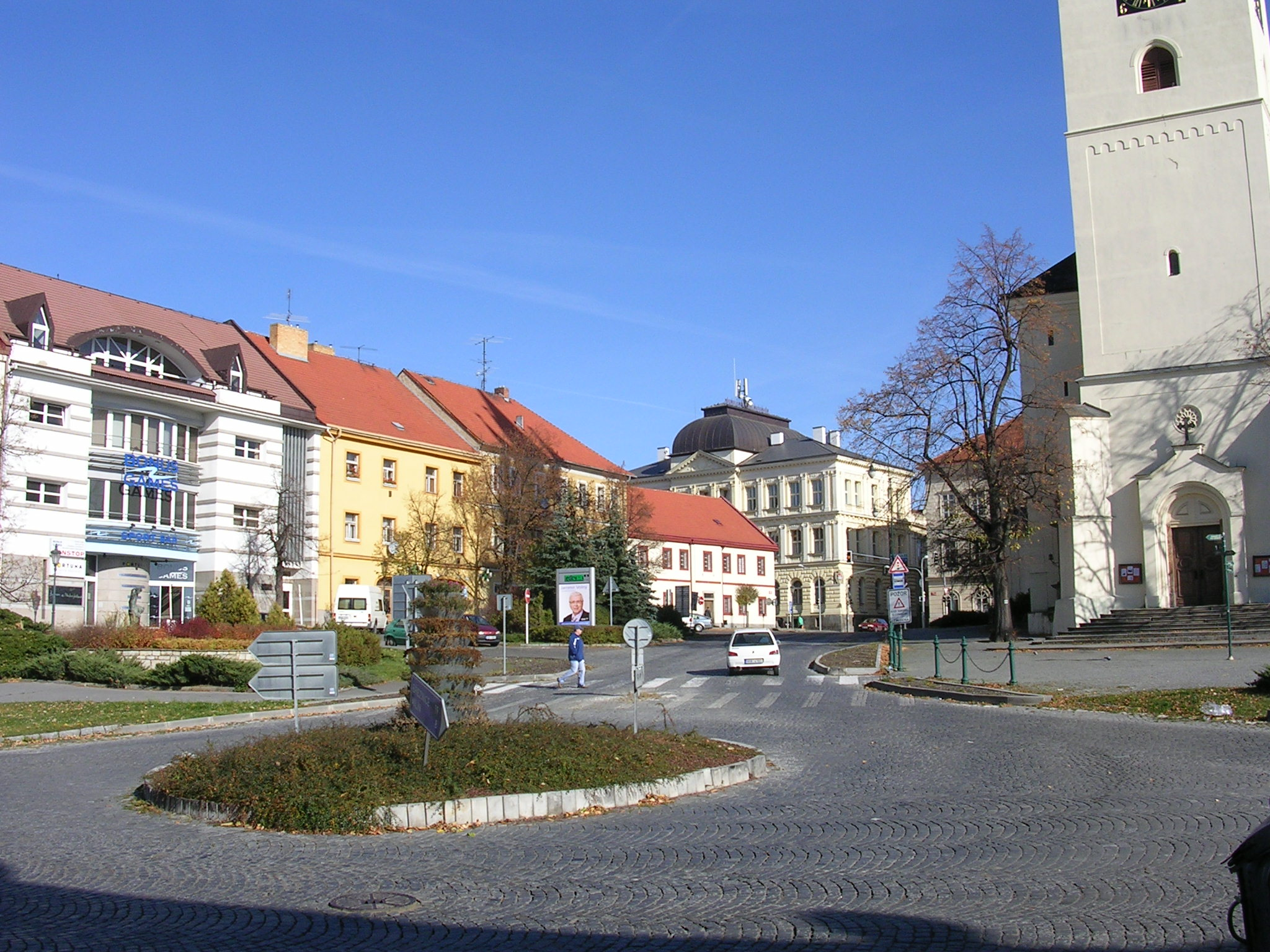 Příbram.